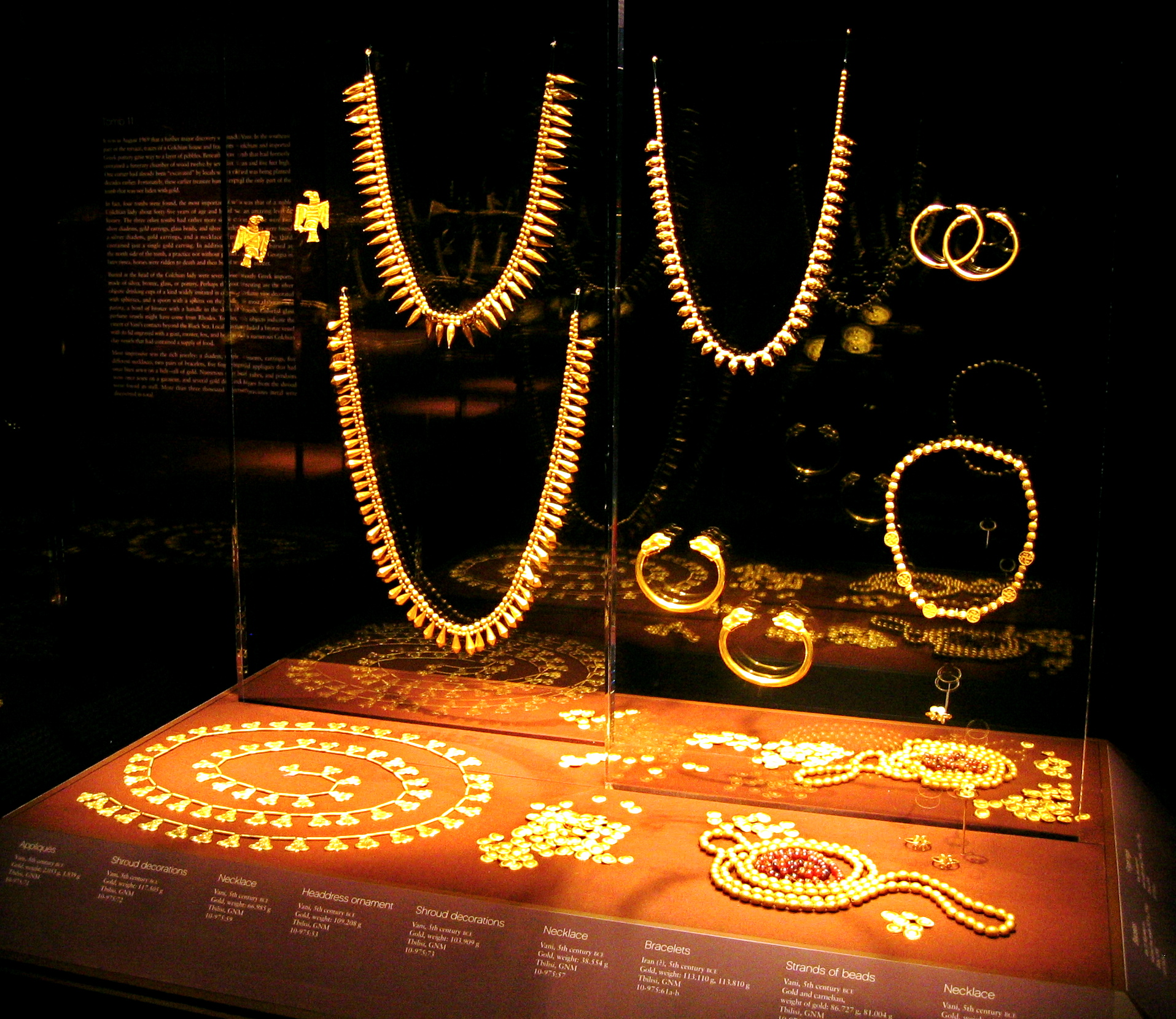 A collection of ancient gold bracelets and necklaces found in Vani, Western Georgia. They are now located in the Smithsonian Institute of Washington, DC.